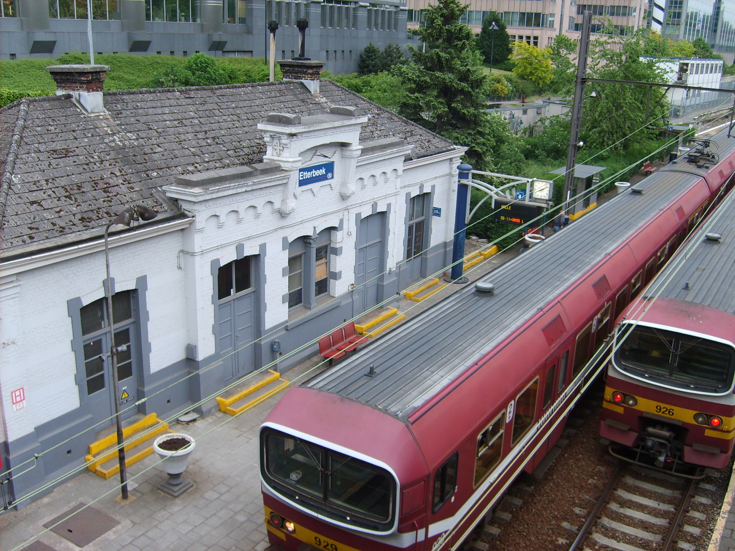 Train Station of Etterbeek, Belgium.